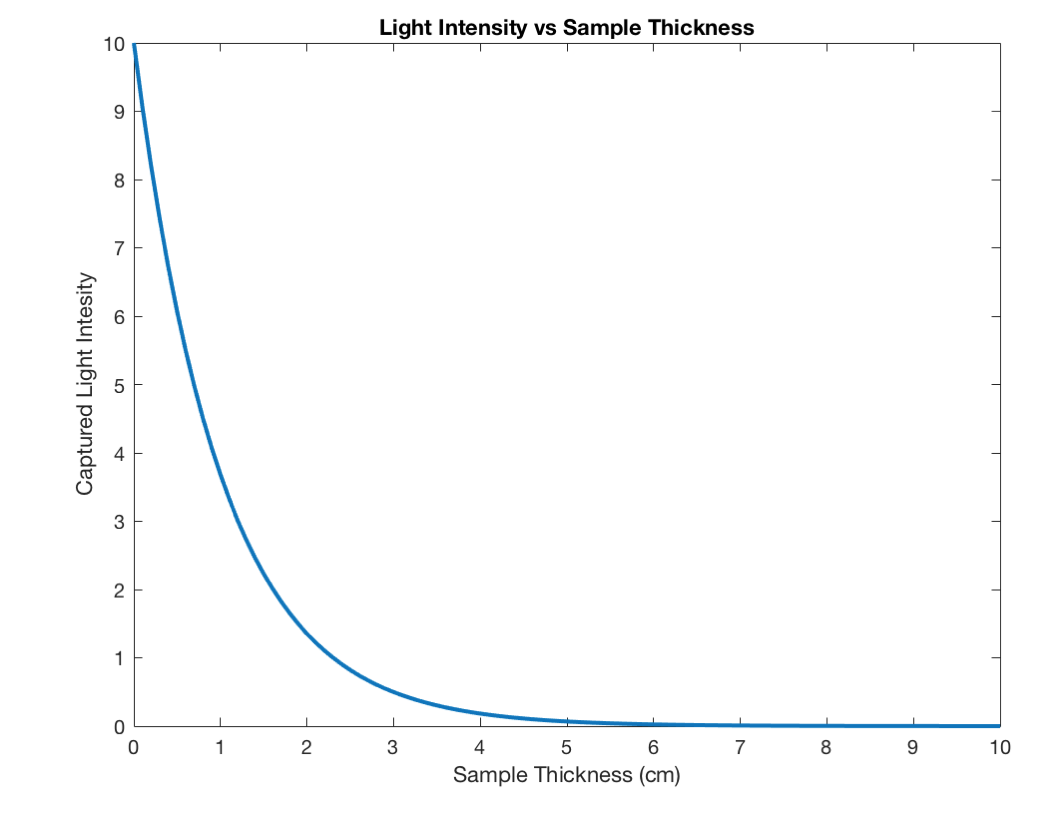 MATLAB Plot of Beer's law